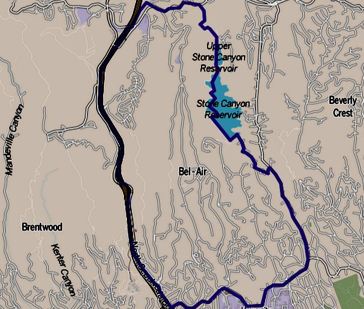 Map of Bel Air, California, as delineated by the Los Angeles Times Other information Boundary map as drawn by the Los Angeles Times on a CC-by-SA background. Note at bottom right of map on the L.A. Times website noted above says "CC-by-SA" (which gives permission to use the map). There is a link there to which explains the meaning thereof. The base map is credited to The Times spells all this out at